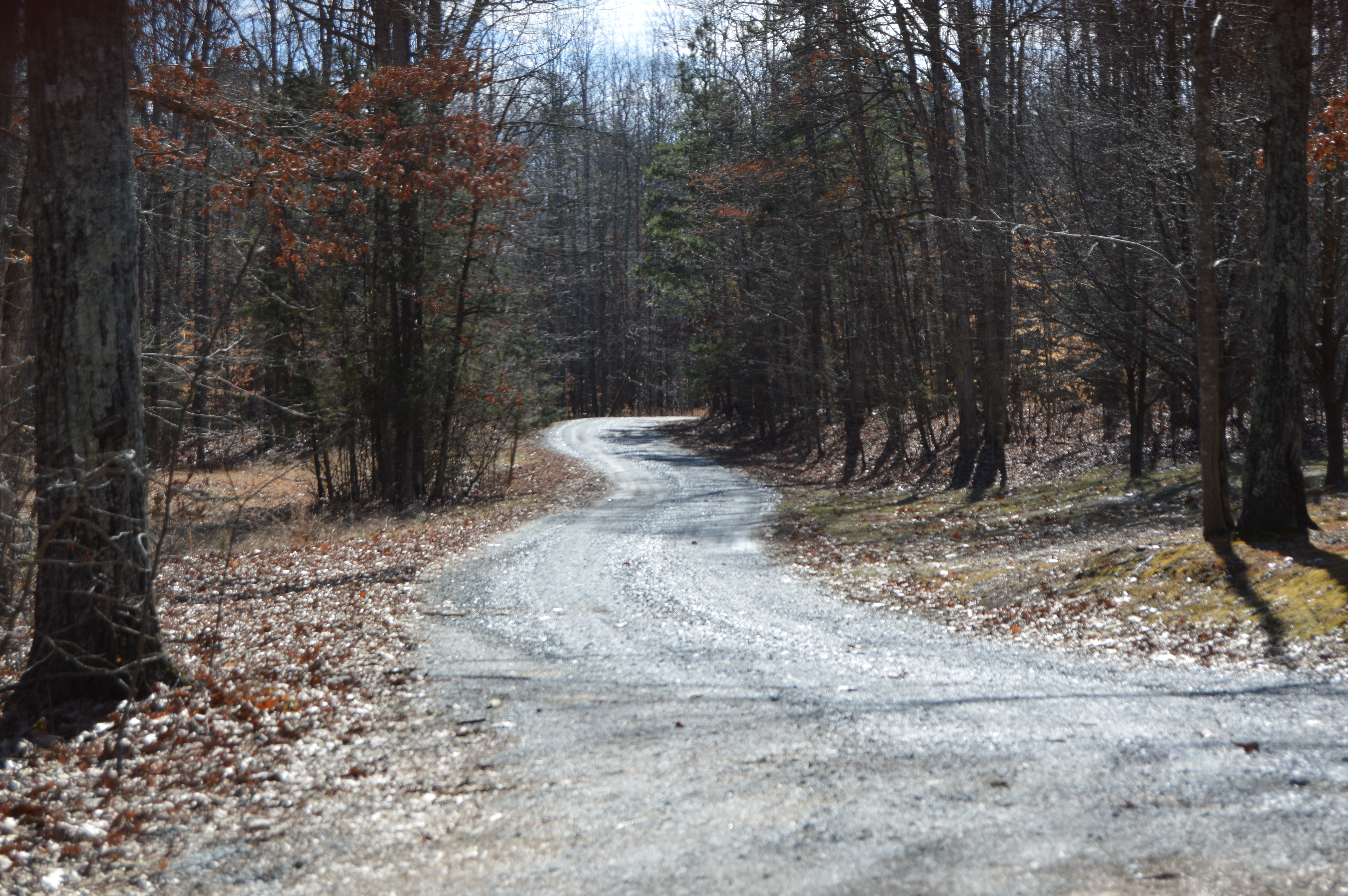 Driveway to the Laughton property, located off Perkins Road northeast of Kents Store in Fluvanna County, Virginia, United States. The property is listed on the National Register of Historic Places.